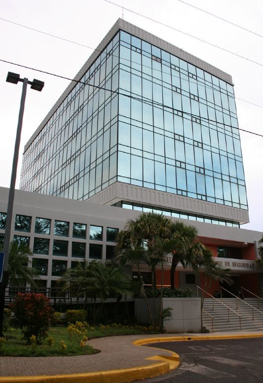 National Institute of Social Security building in Nicaragua.